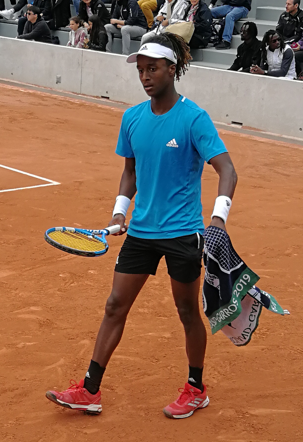 Swedish tennis player Mikael Ymer at French Open 2019, first round, court n°13.